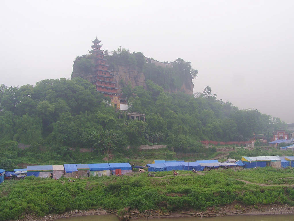 Shibaozhai